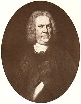 Philip Ditlev (Detlev) Trampe (1678-1750), German and Danish Count, Danish Major General